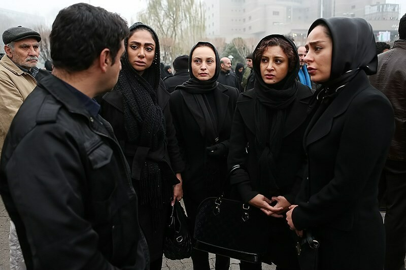 From Right: Samane Pakdel, Hadithe Tehrani and Maryam Kavyani at At the funeral ceremony of the victims of the incident in the Ekhrajiha TV series